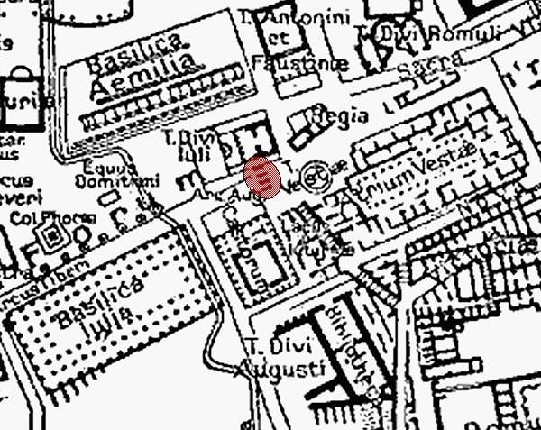 Rasterized Image:Map_of_downtown_Rome_during_the_Roman_Empire_large.jpg. with highlighted Arch of Augustus.*